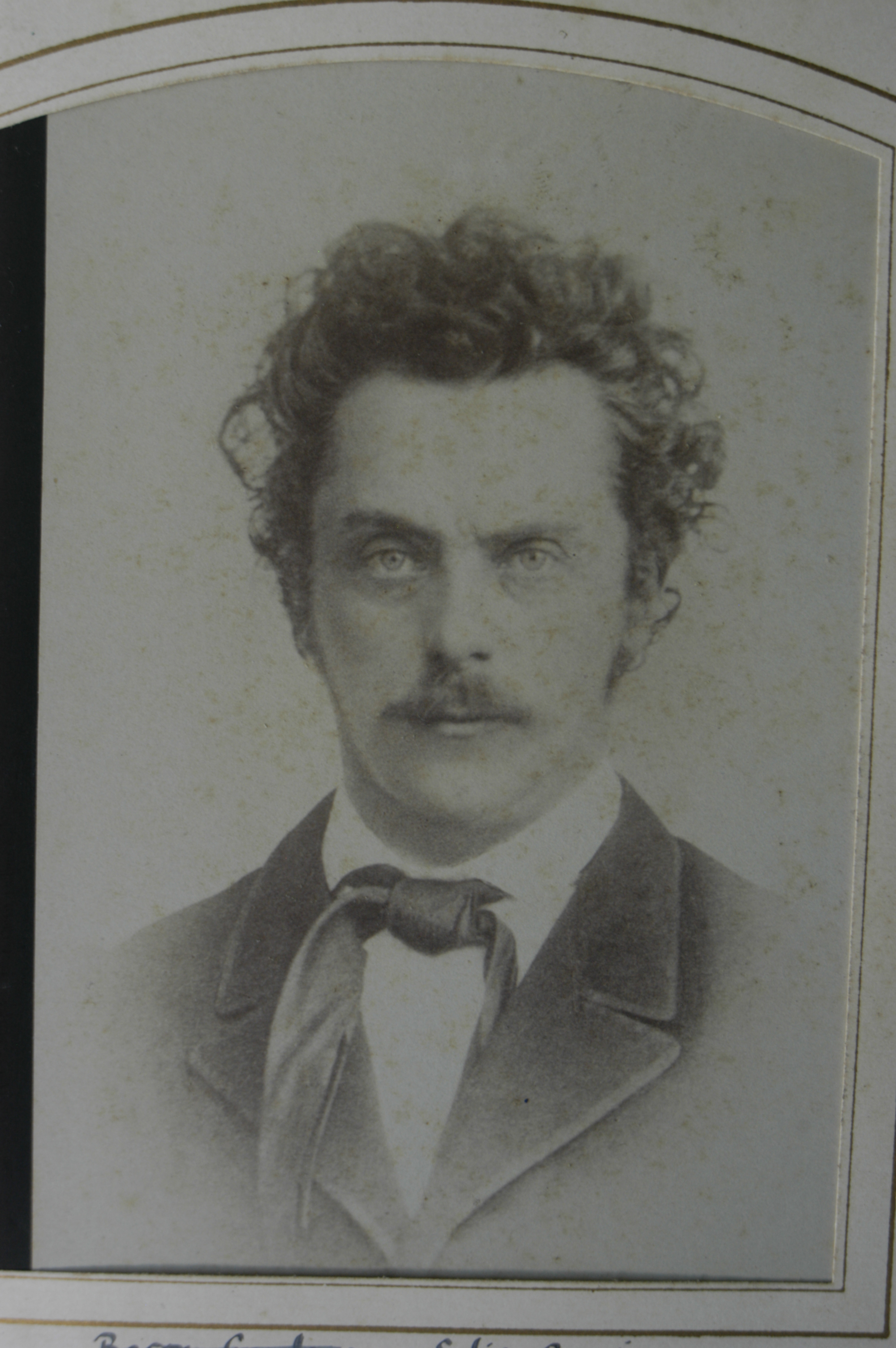 Photo (by me, R. de SalisRodolph (talk) 22:35, 5 July 2014 (UTC)) of a pre-1884 photo of Baron/Freiherr John Gaudenz Dietegan v. Salis-Seewis (1825-1886), member of the Swiss Federal Council. Other information sitter: Baron/Freiherr John Gaudenz Dietegan v. Salis-Seewis (1825-1886).